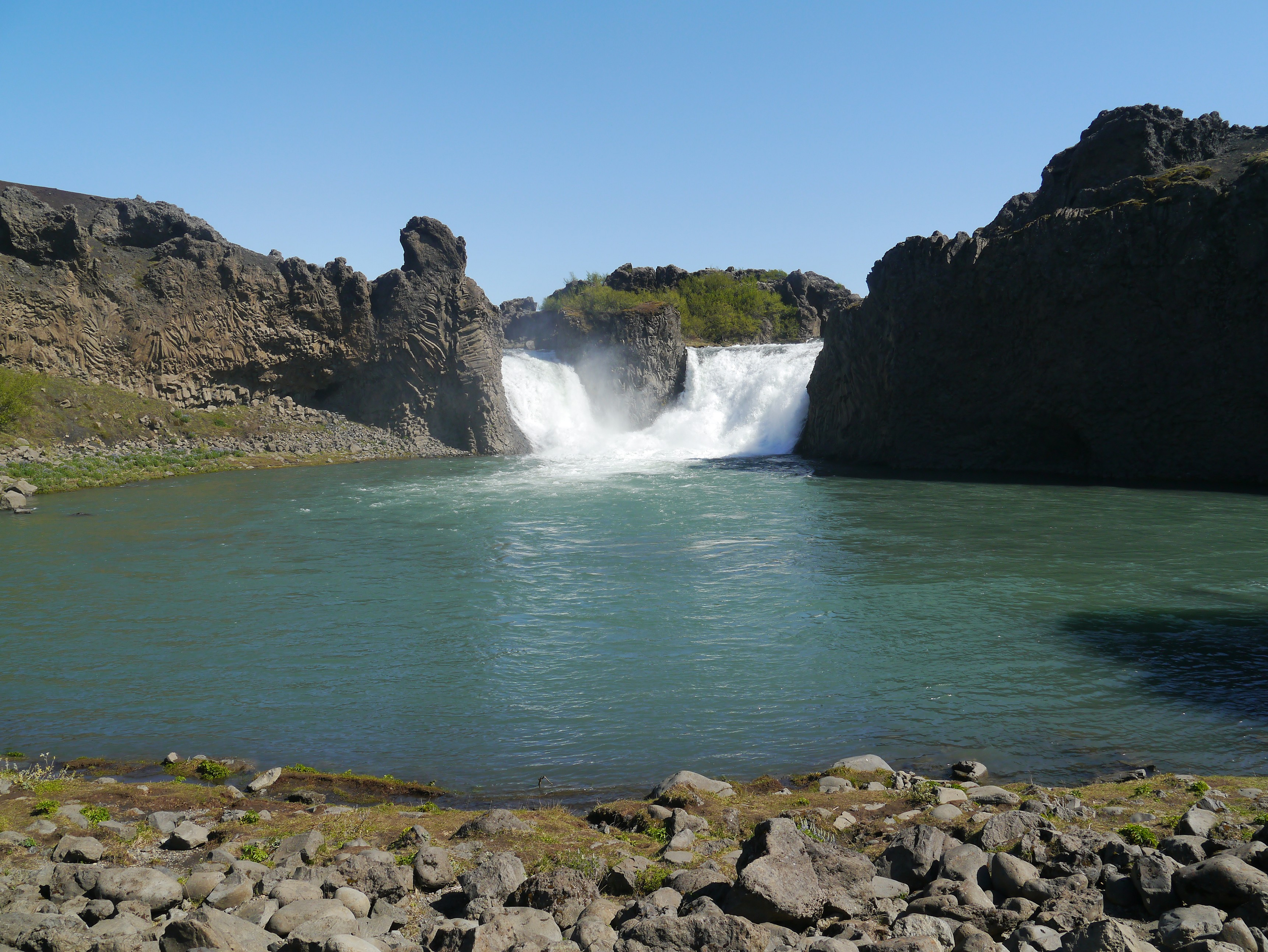 Hjálparfoss